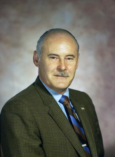 Representative Charles D. Kilbury, 1971